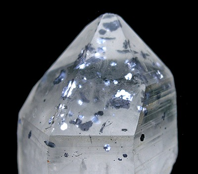 Molybdenite, Quartz Locality: Confianza Mine, Tilama, Coquimbo Region, Chile (Locality at ) Size: miniature, 5.5 x 3.2 x 3.2 cm Quartz with Molybdenite inclusions One of several really showy, richly included specimens Dick bought from collector Terry Szenics , who found them in Chile in about 2004. This particular miniature is a single robust crystal with the finest, largest molybdenite inclusions I have seen in any example from this find. They are dramatic, shiny, crysatllized inclusions to about 8mm in size and are vibrant within the quartz (which is undamaged). Superb example of this rare inclusion!